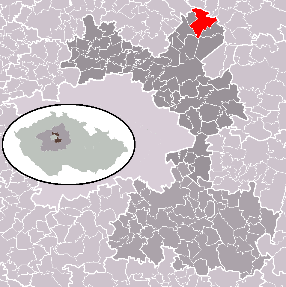 Location of Sudovo Hlavno municipality within Prague-East District and administrative area of Brandýs nad Labem-Stará Boleslav as a Municipality with Extended Competence.